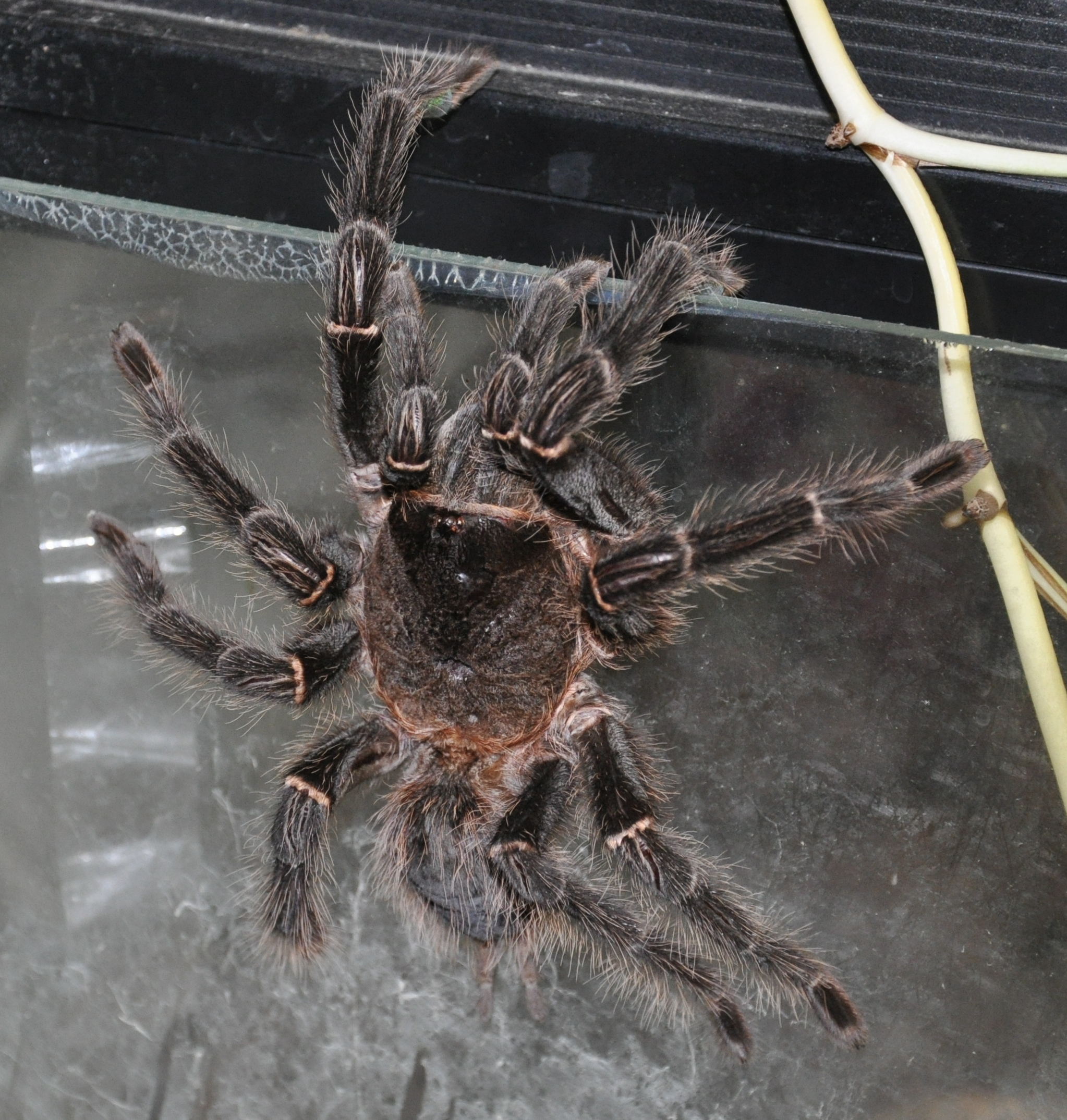 An adult female of Lasiodora parahybana, climbing the terrarium side.